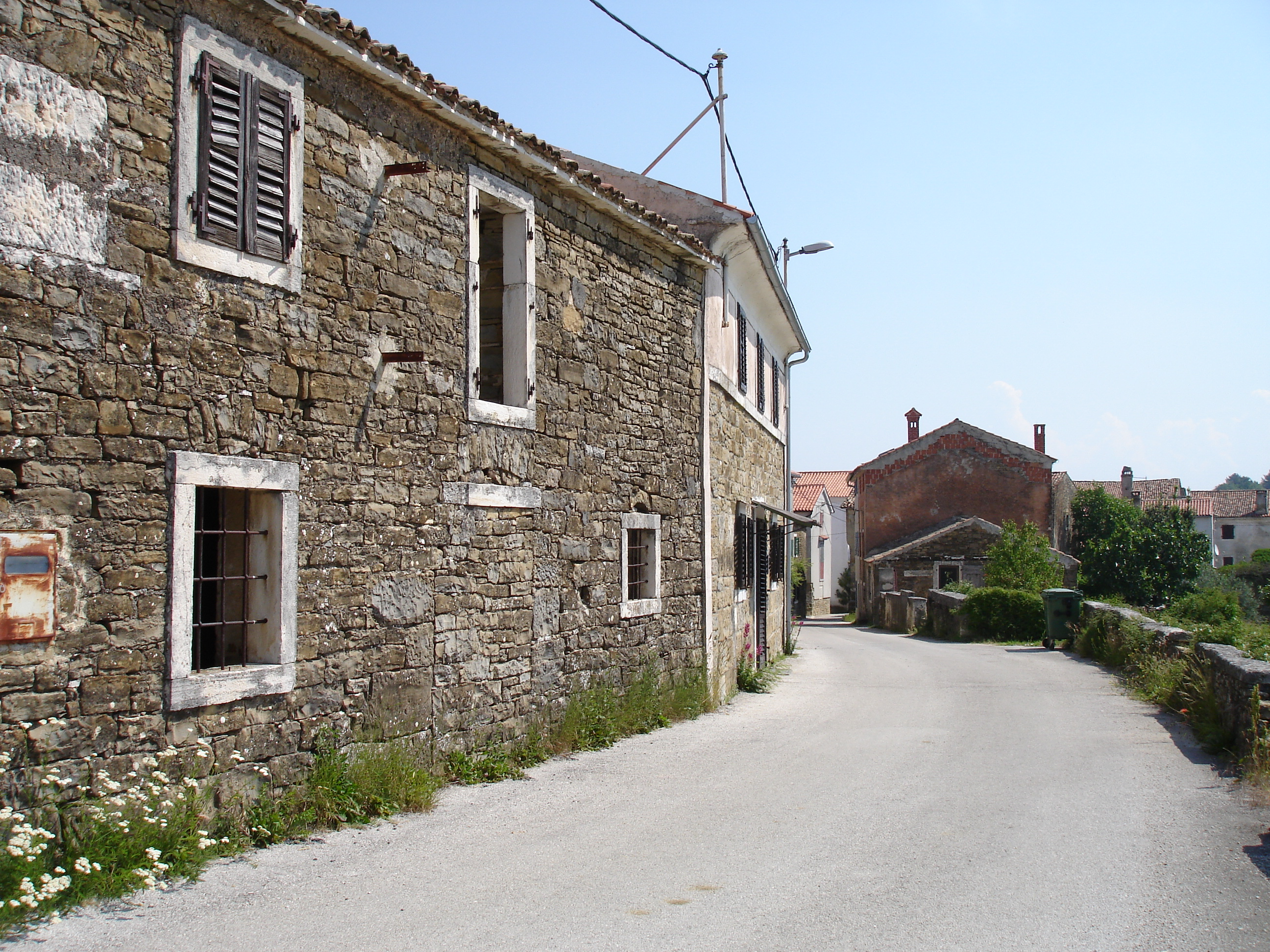 Village of Momjan in Istria, Croatia